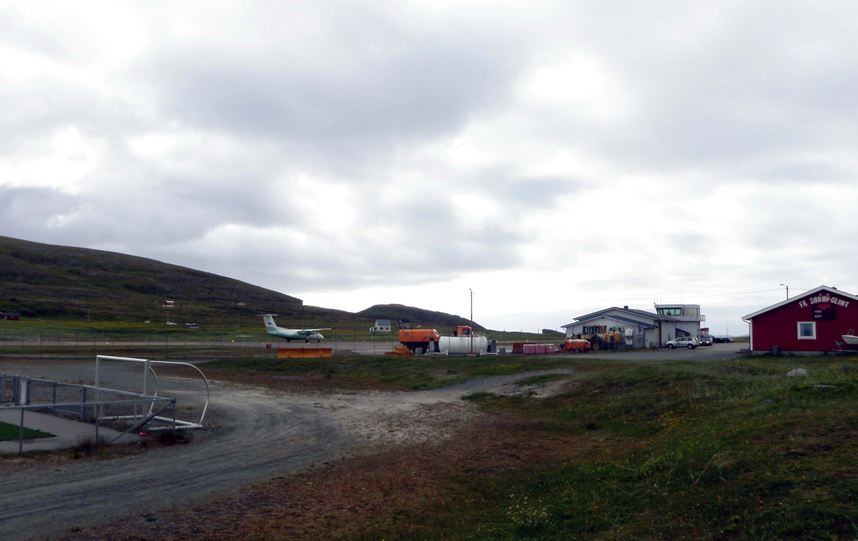 View of Hasvik Airport, in Hasvik, Finnmark, Norway. A Bombardier Dash 8 aircraft from the airline Widerøe is seen in the process of taking off.